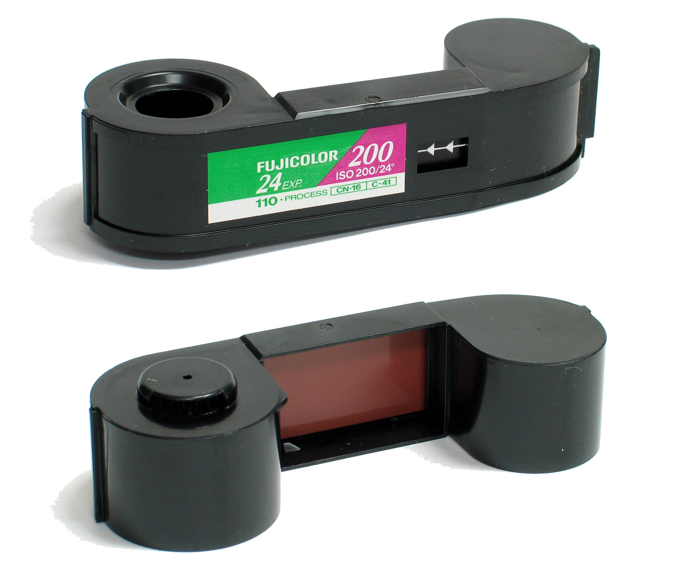 110 (pocket camera) format film cartridge.